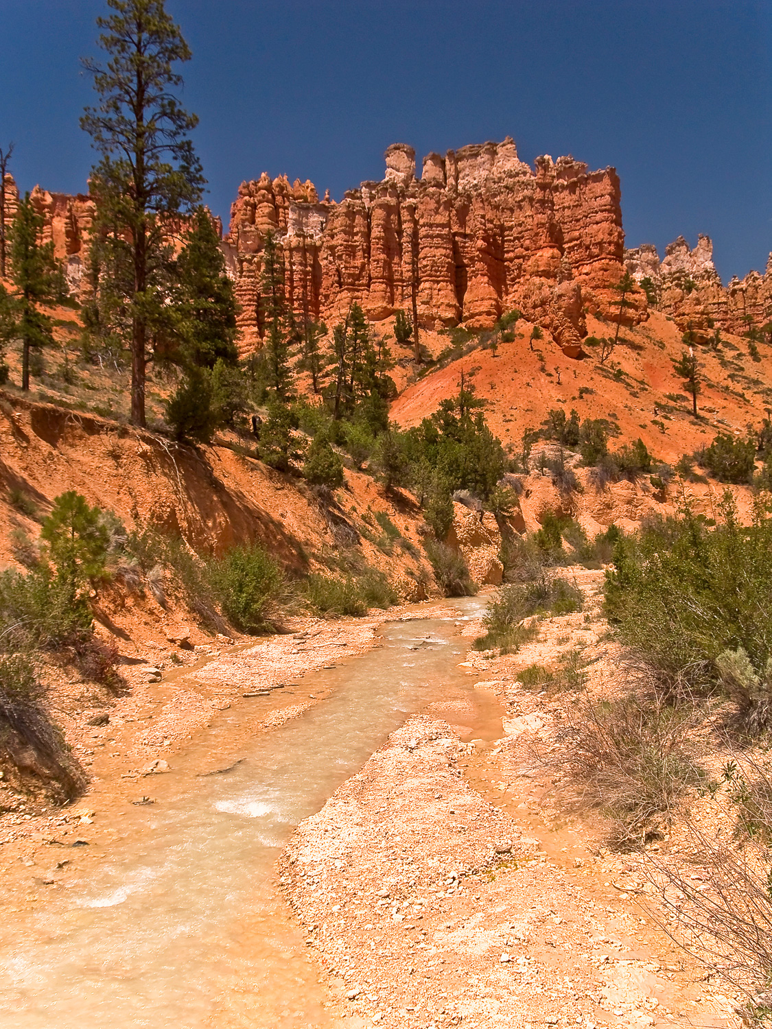 Bryce Canyon National Park, Utah, USA : Paria River